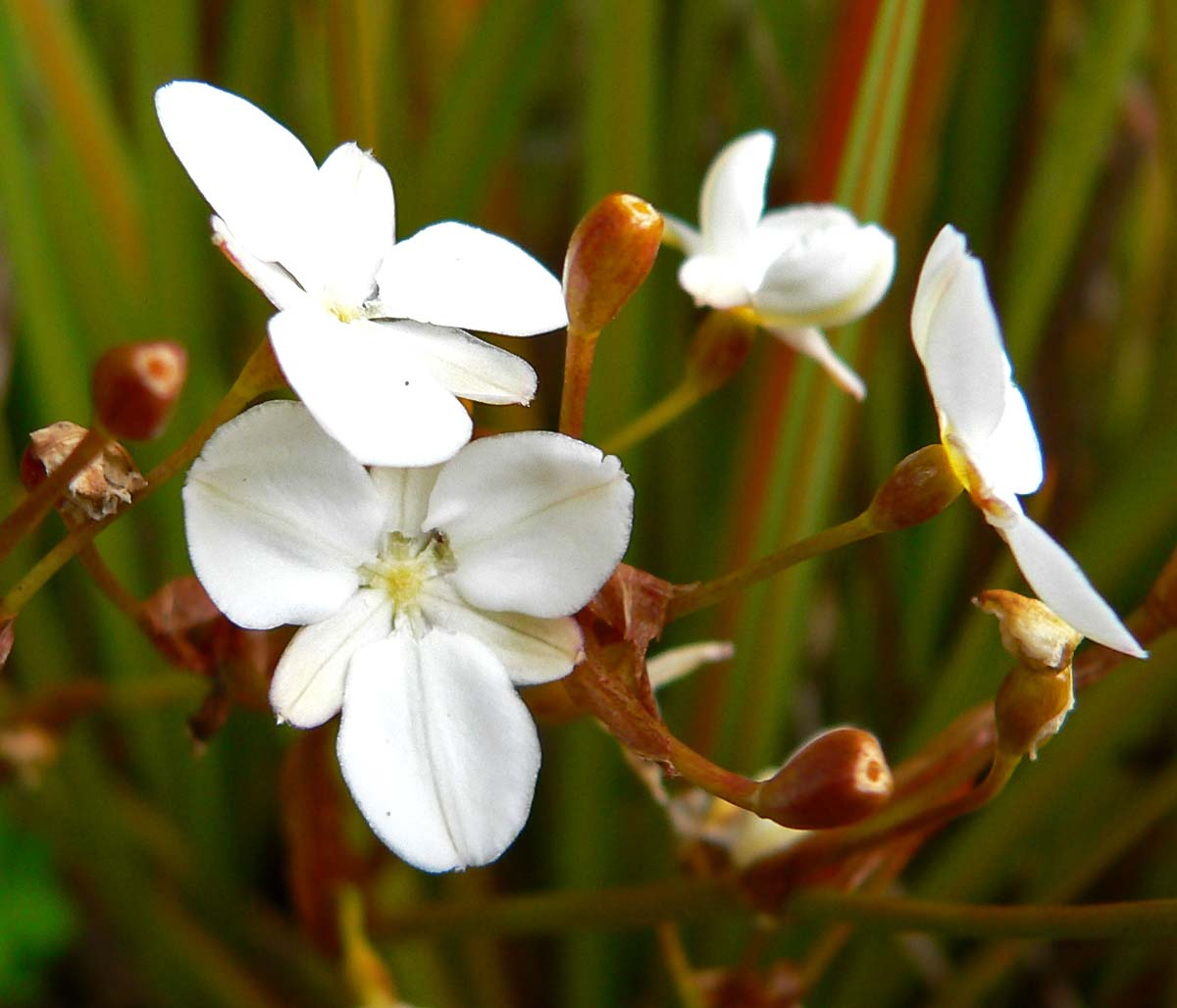 Photo of Libertia peregrinans at the San Francisco Botanical Garden